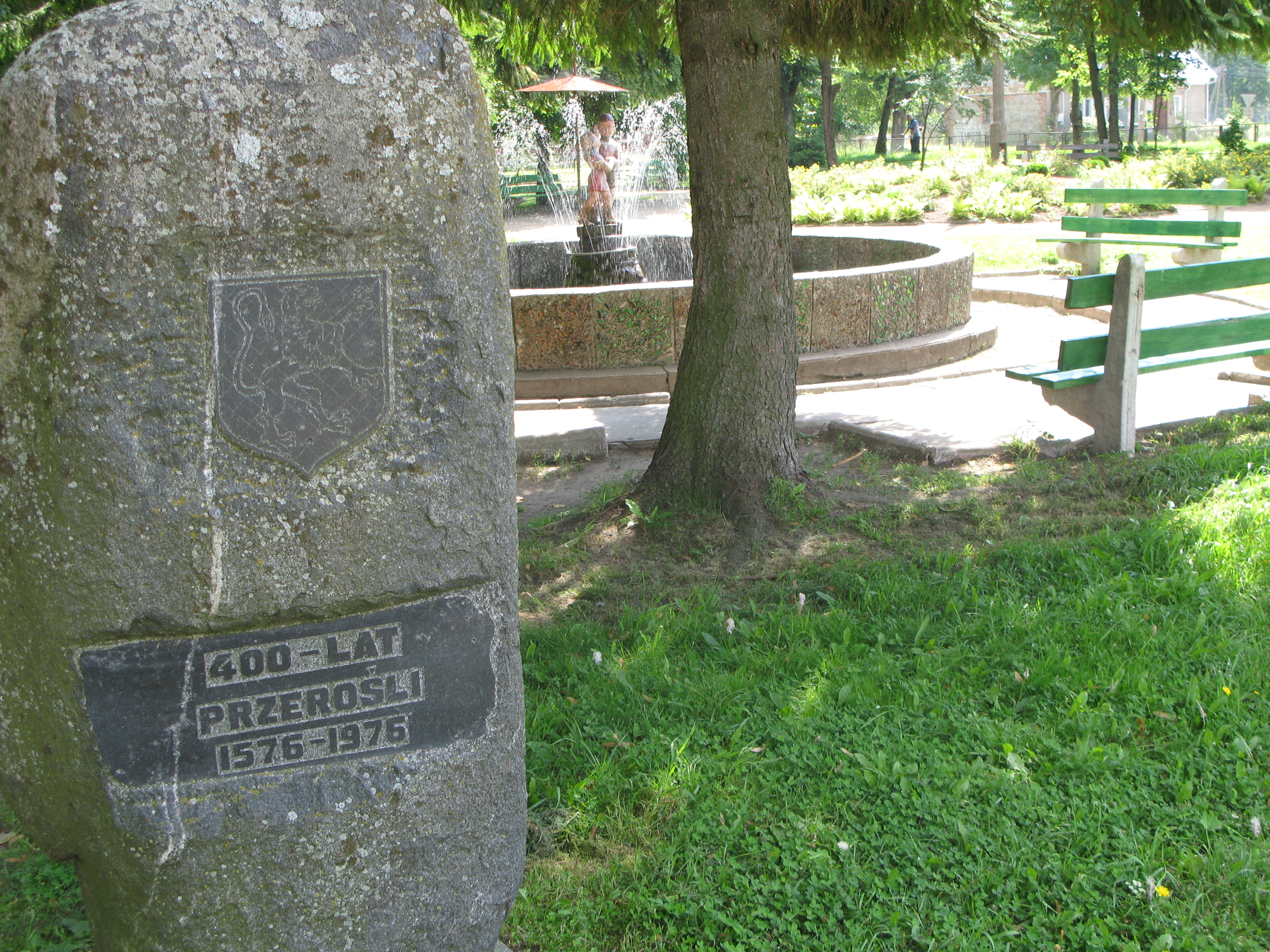 Monument in Przerosl (400 years of the town), town in Poland, region of Suwalki.